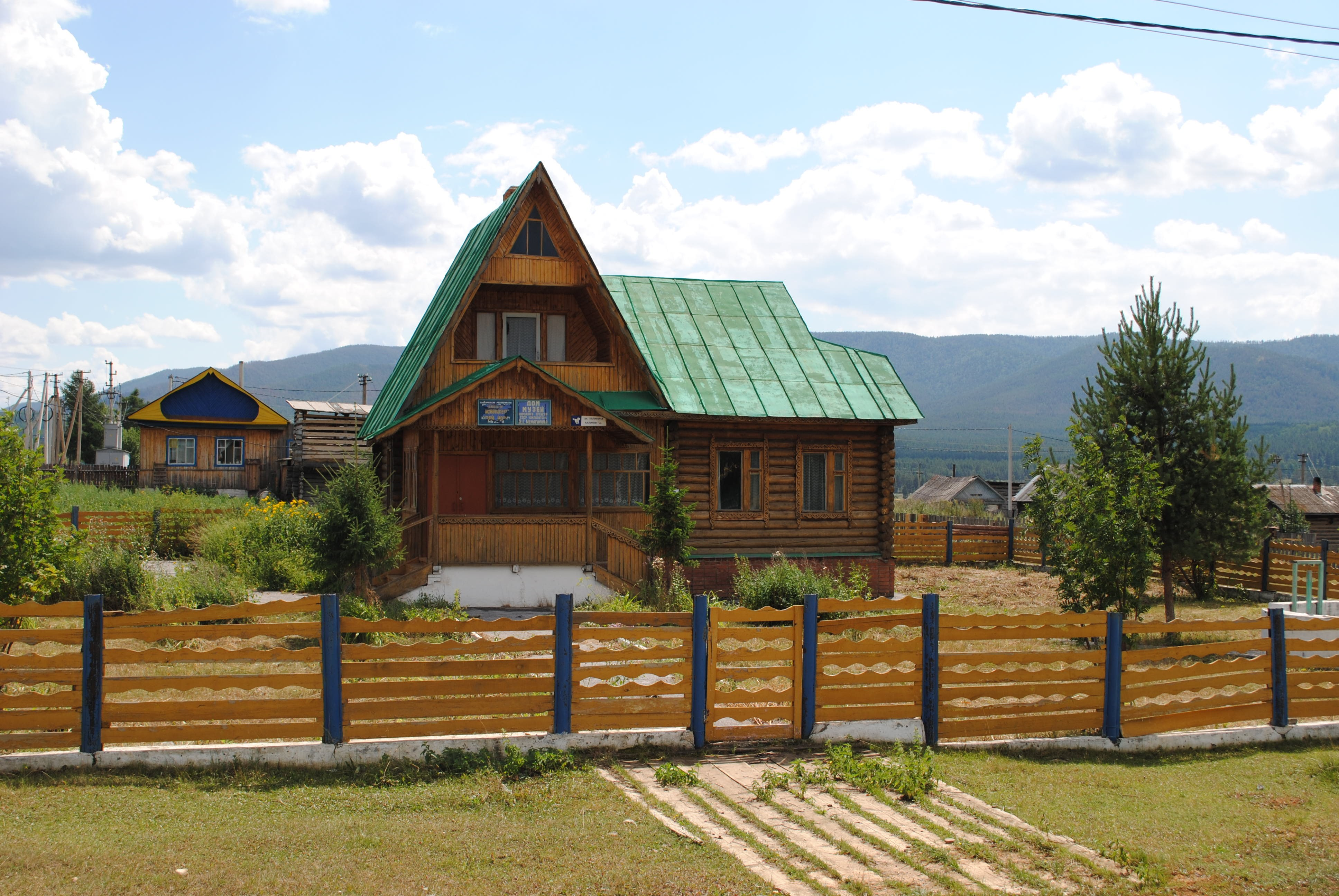 Museum of Ismagilov Zagir Garipovich in Sermen village Башҡортса: Исмәғилев Заһир Ғарип улы музей